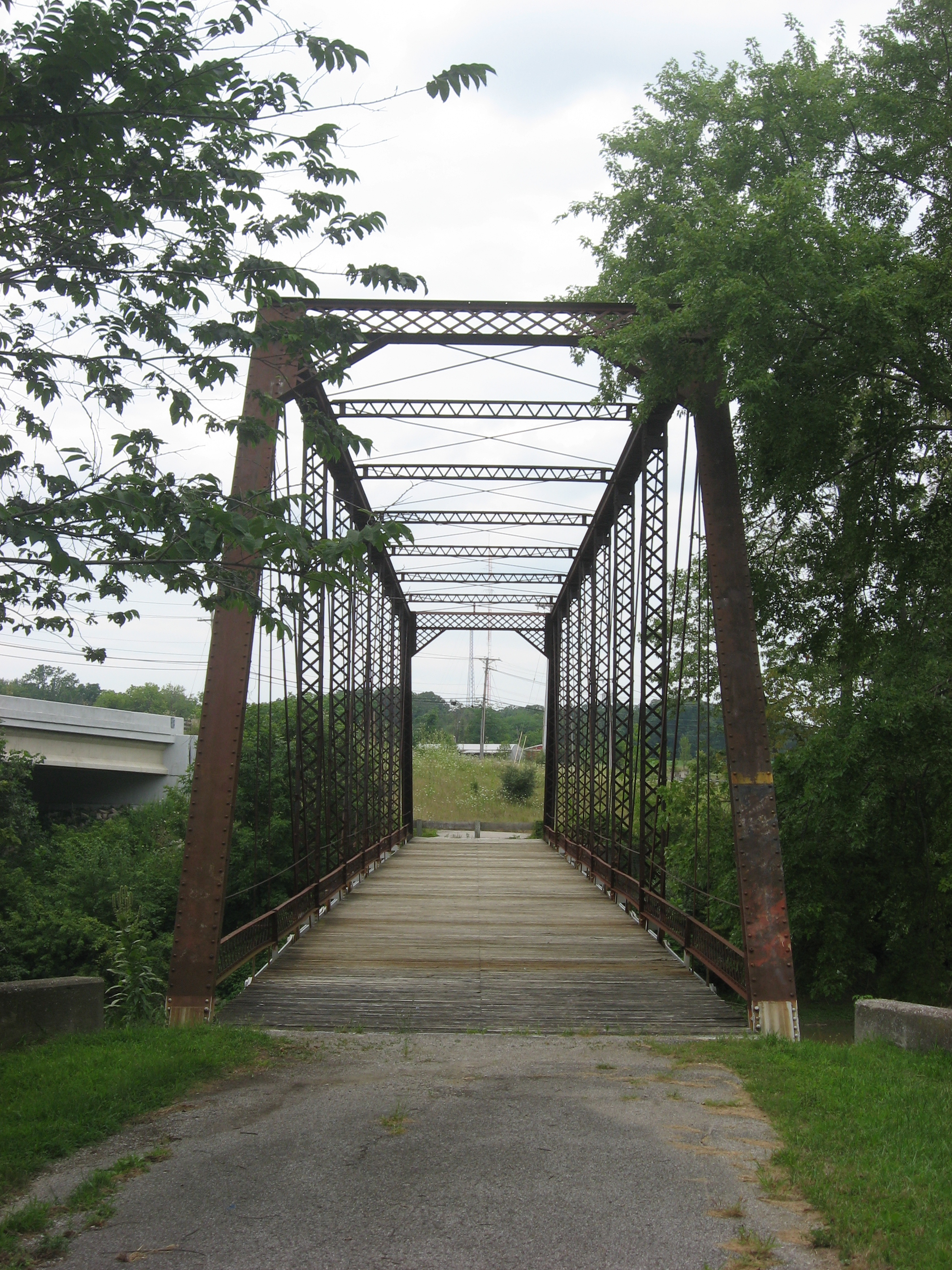 Eastern end of the Dey Road Bridge, which carries Dey Road over the Tiffin River west of Defiance in Noble Township, Defiance County, Ohio, United States. Built in 1906, it is listed on the National Register of Historic Places.